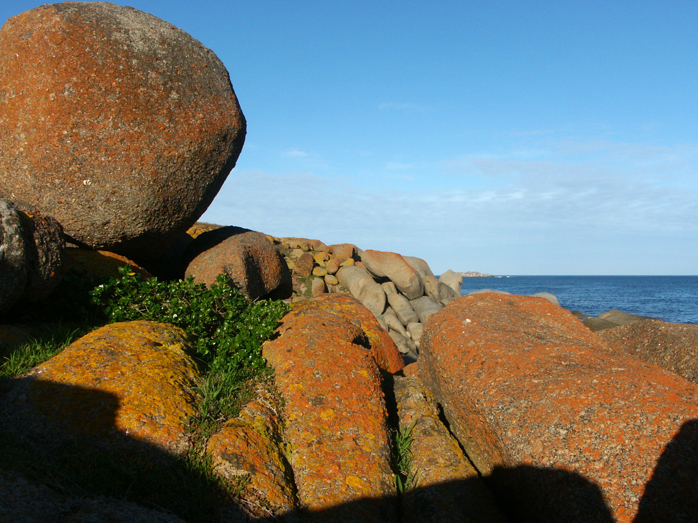 Boulders at sunset on Granite Island, South Australia. For more information, see the Wikipedia article Granite Island (Australia).